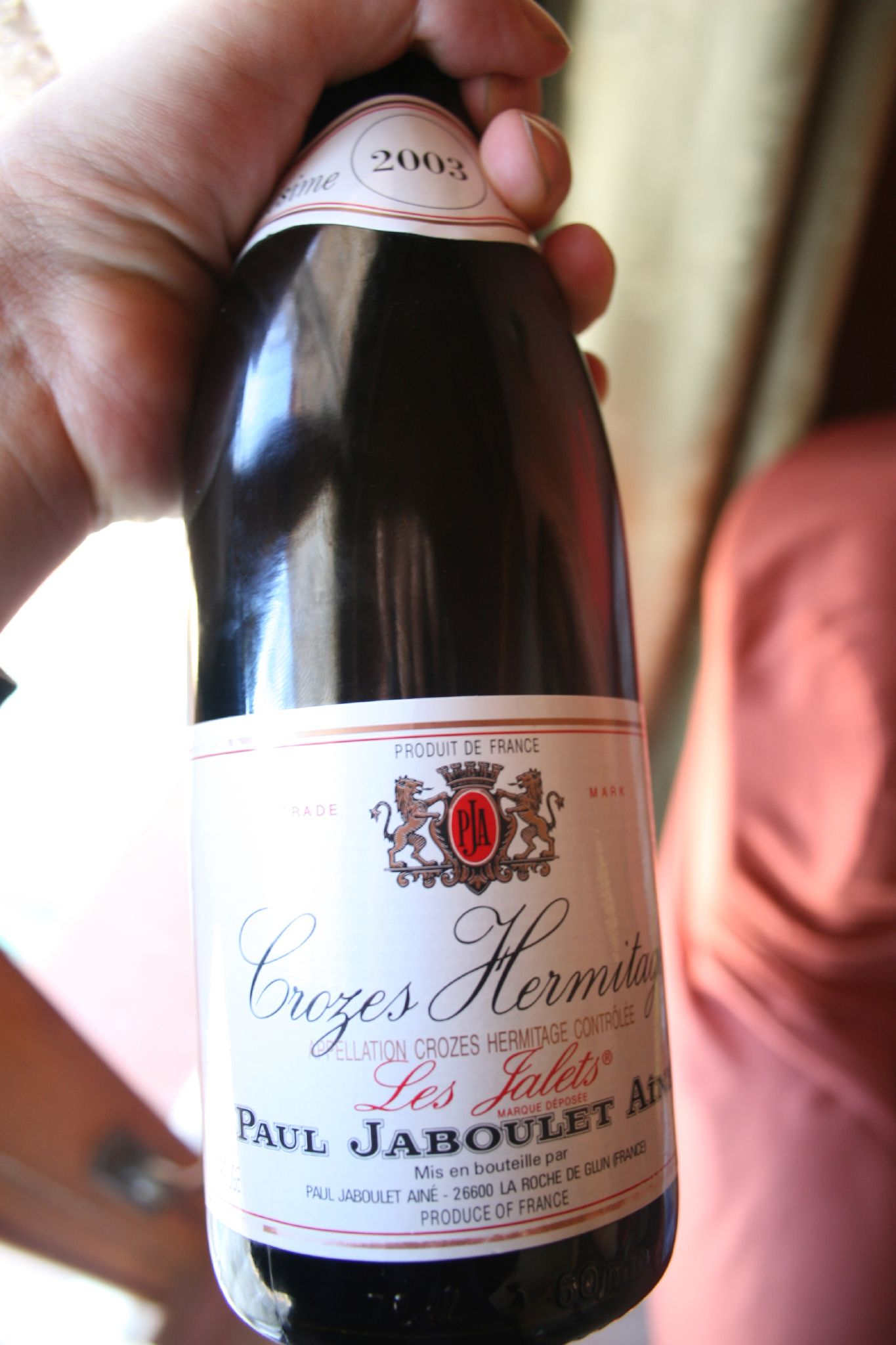 Crozes Hermitage (red wine) Paul Jaboulet